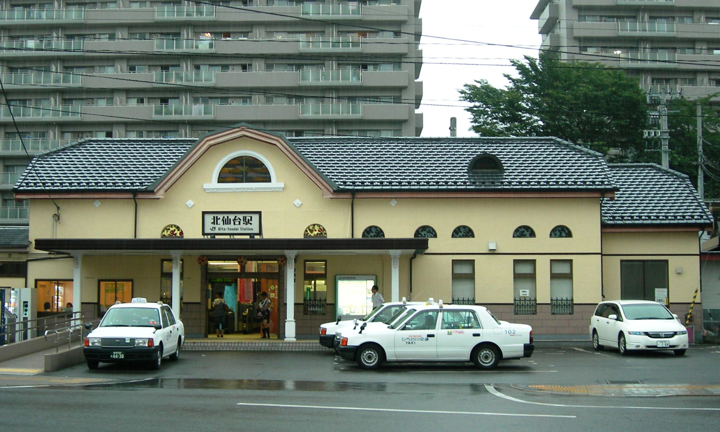 仙山線北仙台駅 Kita-Sendai Station. East Japan Railway Co.